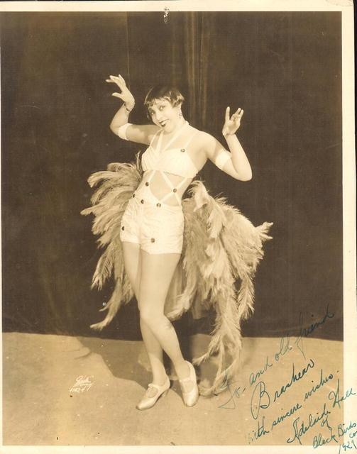 Jazz singer Adelaide Hall (1921).